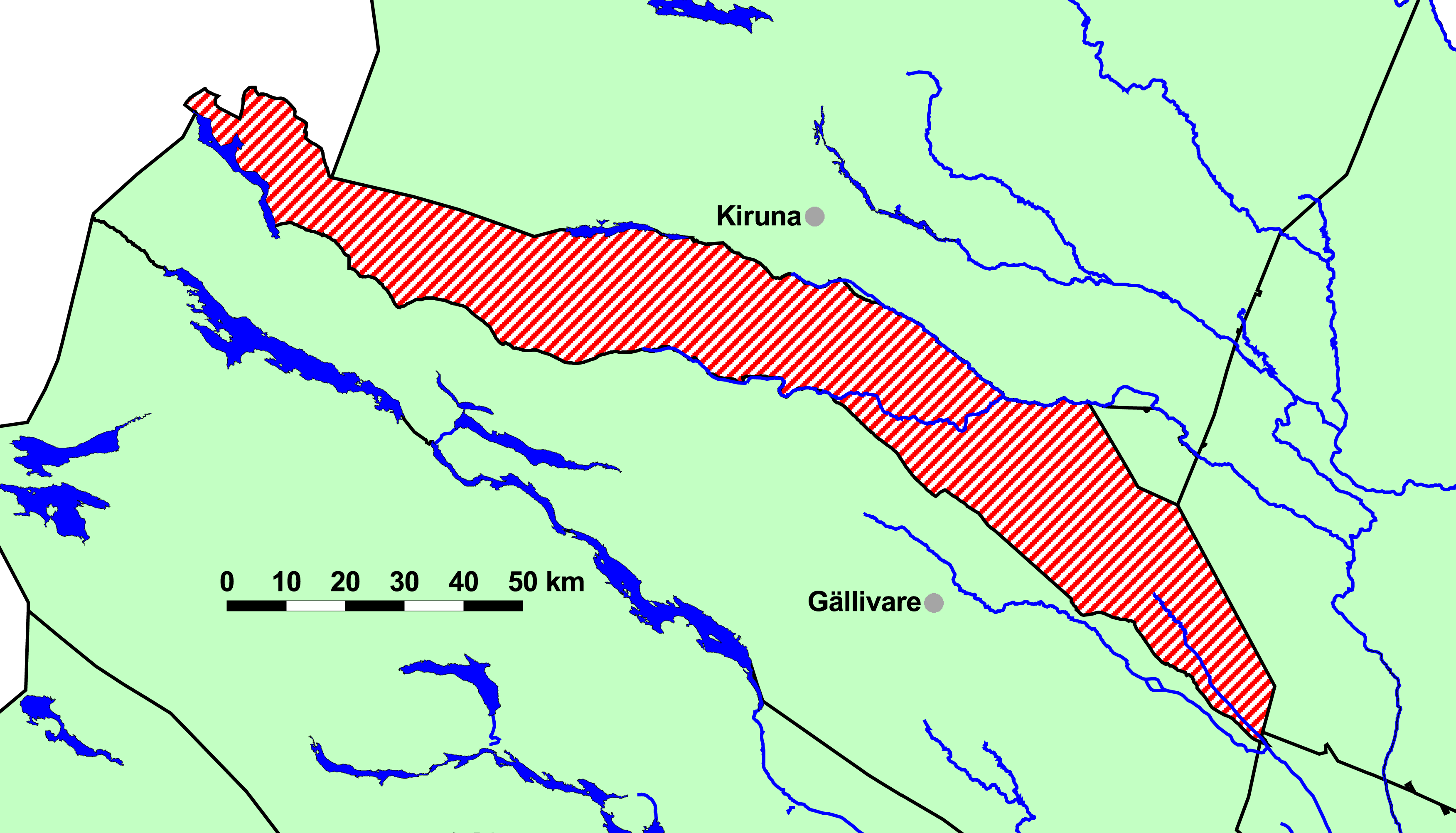 Girjas Sámi community area in Gällivare Municipality, Norrbotten county, Sweden